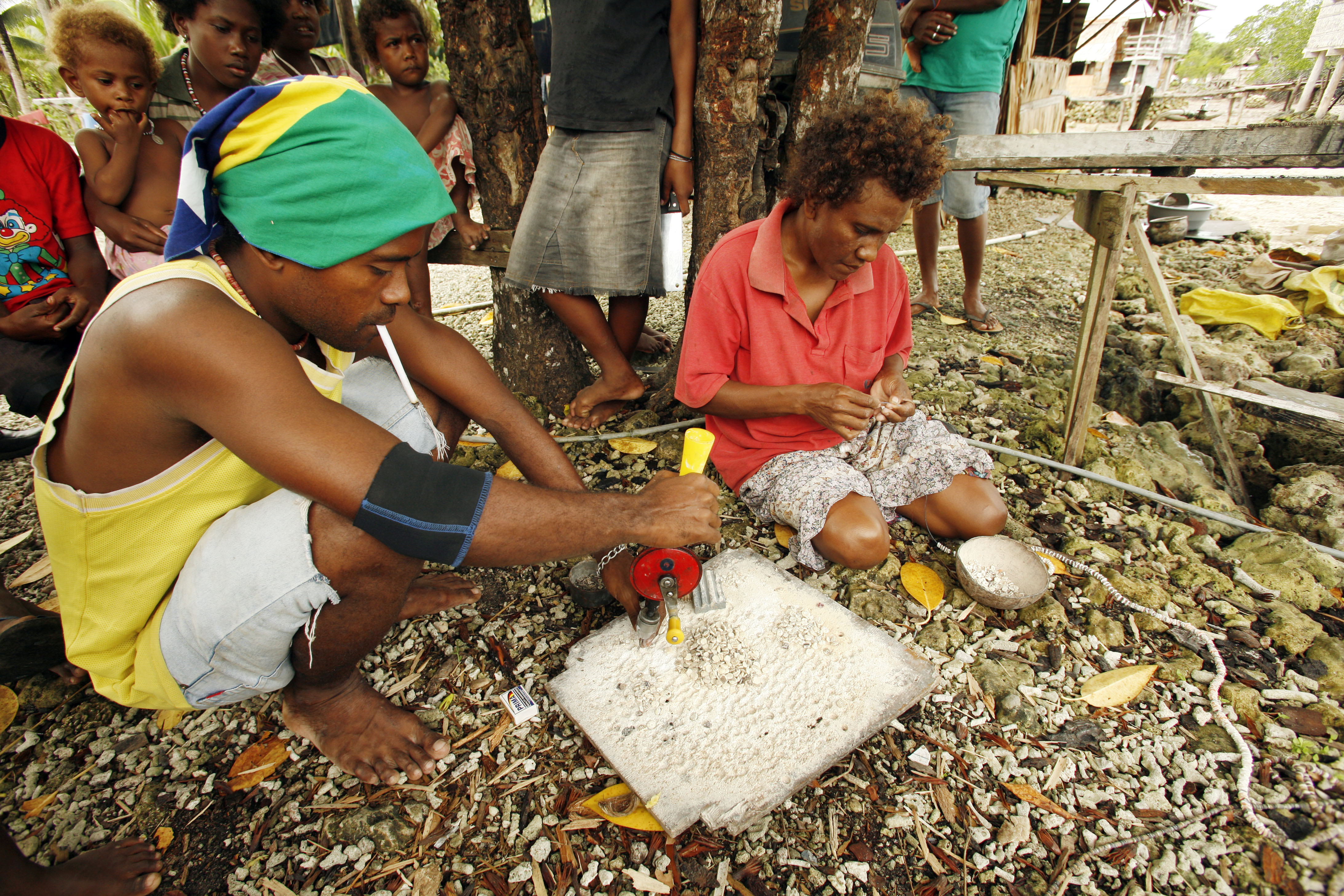 Solomon Islands, Auki. July 2007. Abololo shell money. Photo: Rob Maccoll for AusAID. To request copyright use and access to hi-res versions of this photo